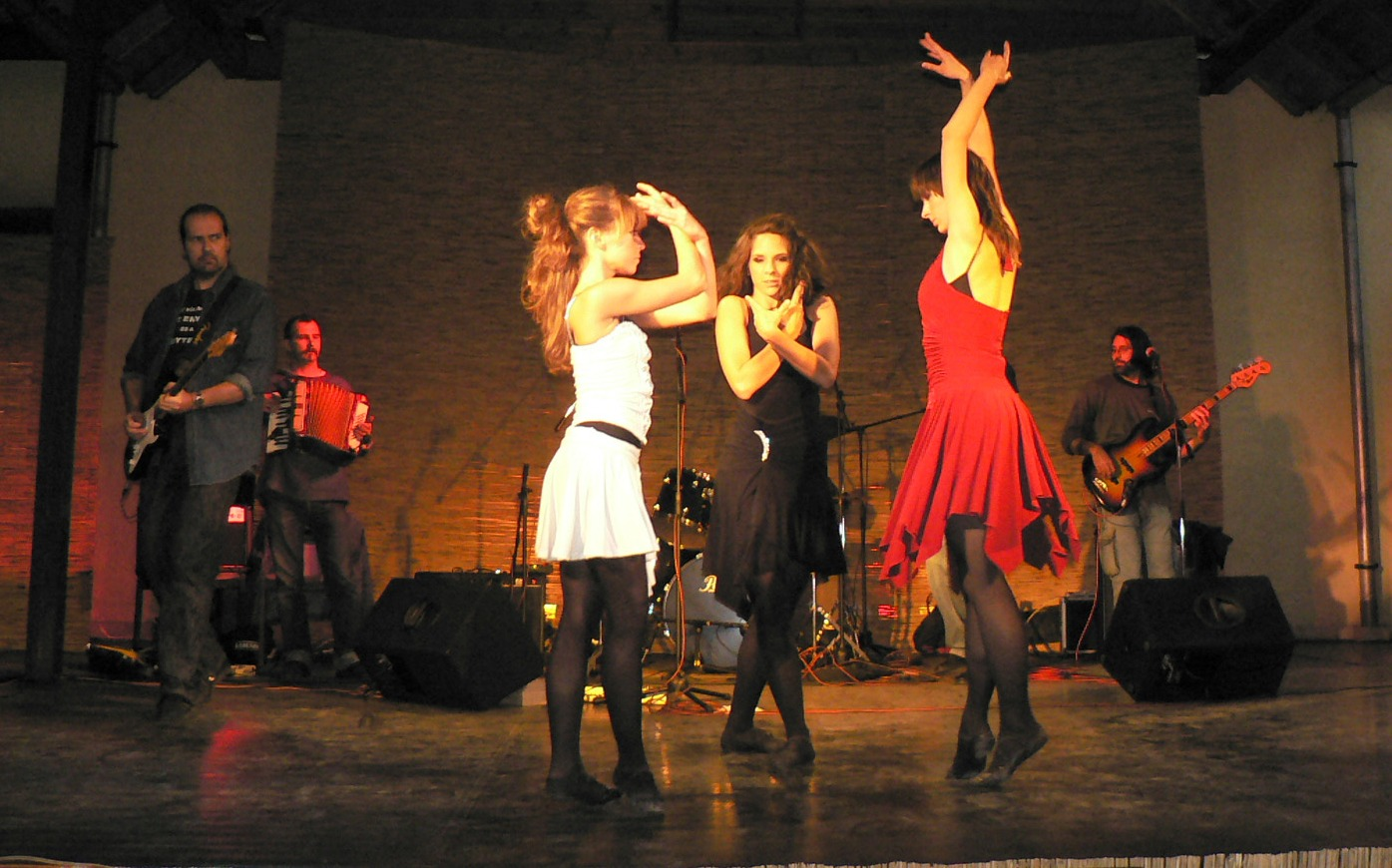 A Shannon egy szabadtéri fellépésen 2008-ban